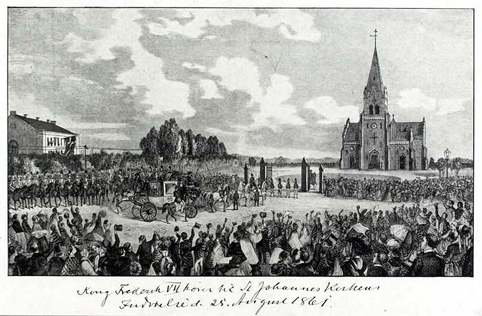 King Frederik VII of Denmark's arrival at the concecration ceremony of Sankt Johannes Kirke (St. John's Church), the first church to be built in Copenhagen outside the city's old fortifications which were about to be decommissioned (note that the name of the file is wrong due to a mistake)